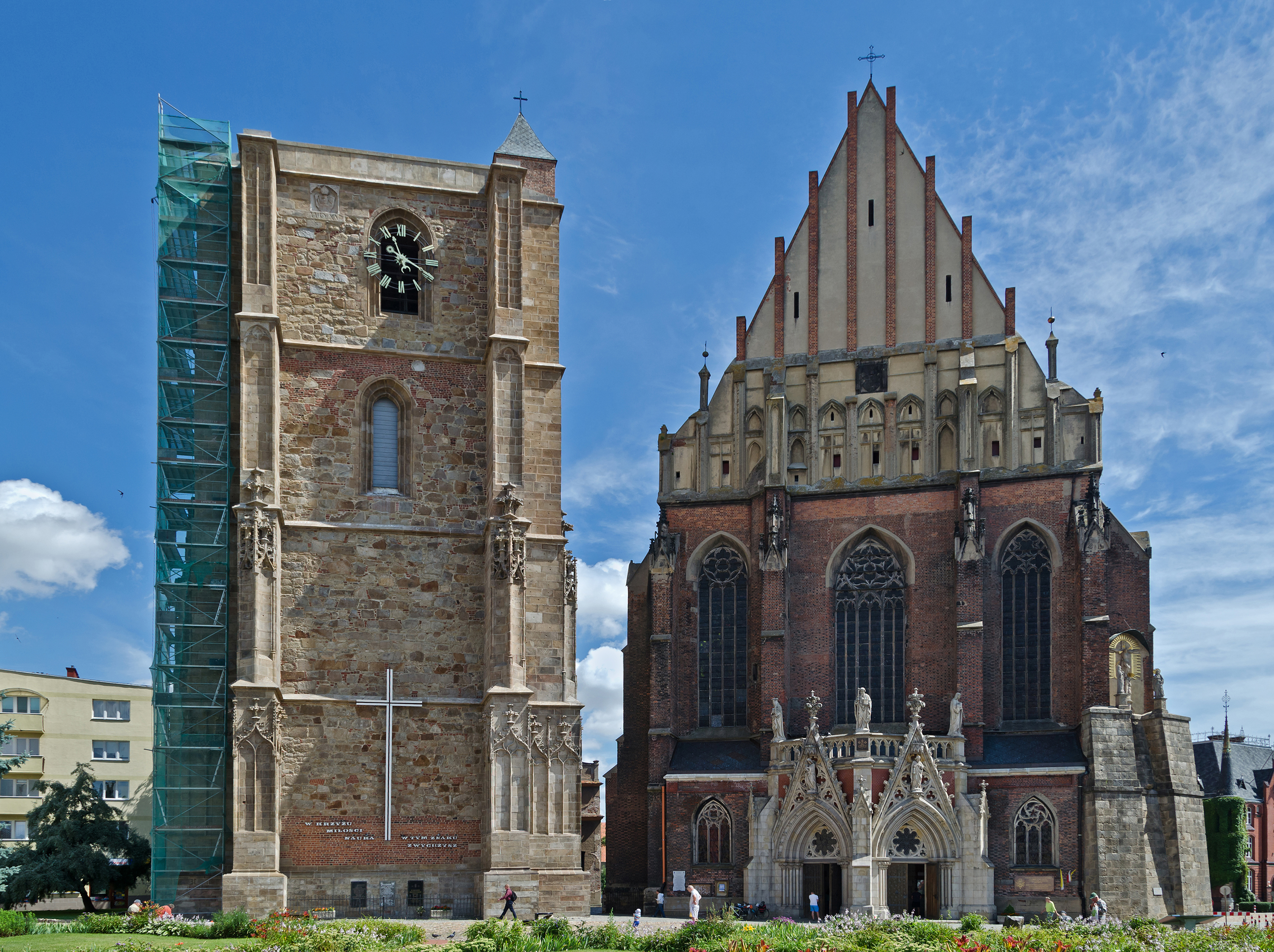 Saints James and Agnes Basilica Complex in Nysa